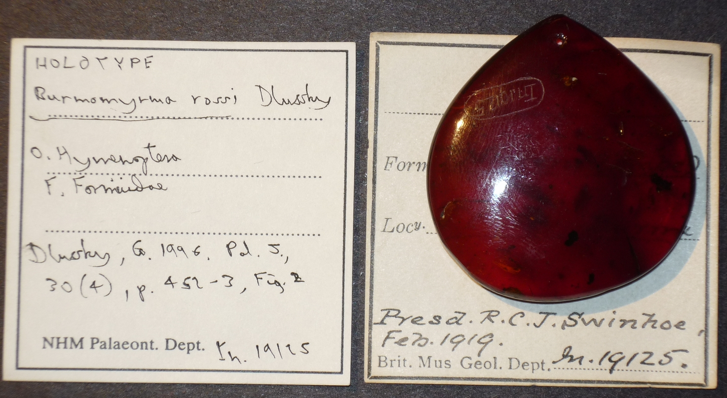 View of the Burmomyrma rossi holotype amber specimen and associated type label